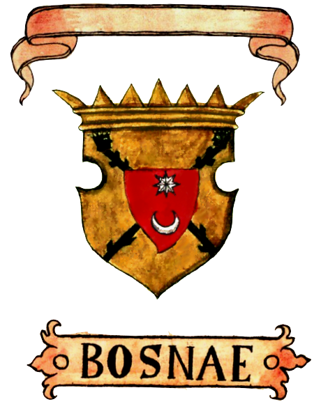 Coat of arms of Bosnia taken from the Fojnica Armorial (17th century).